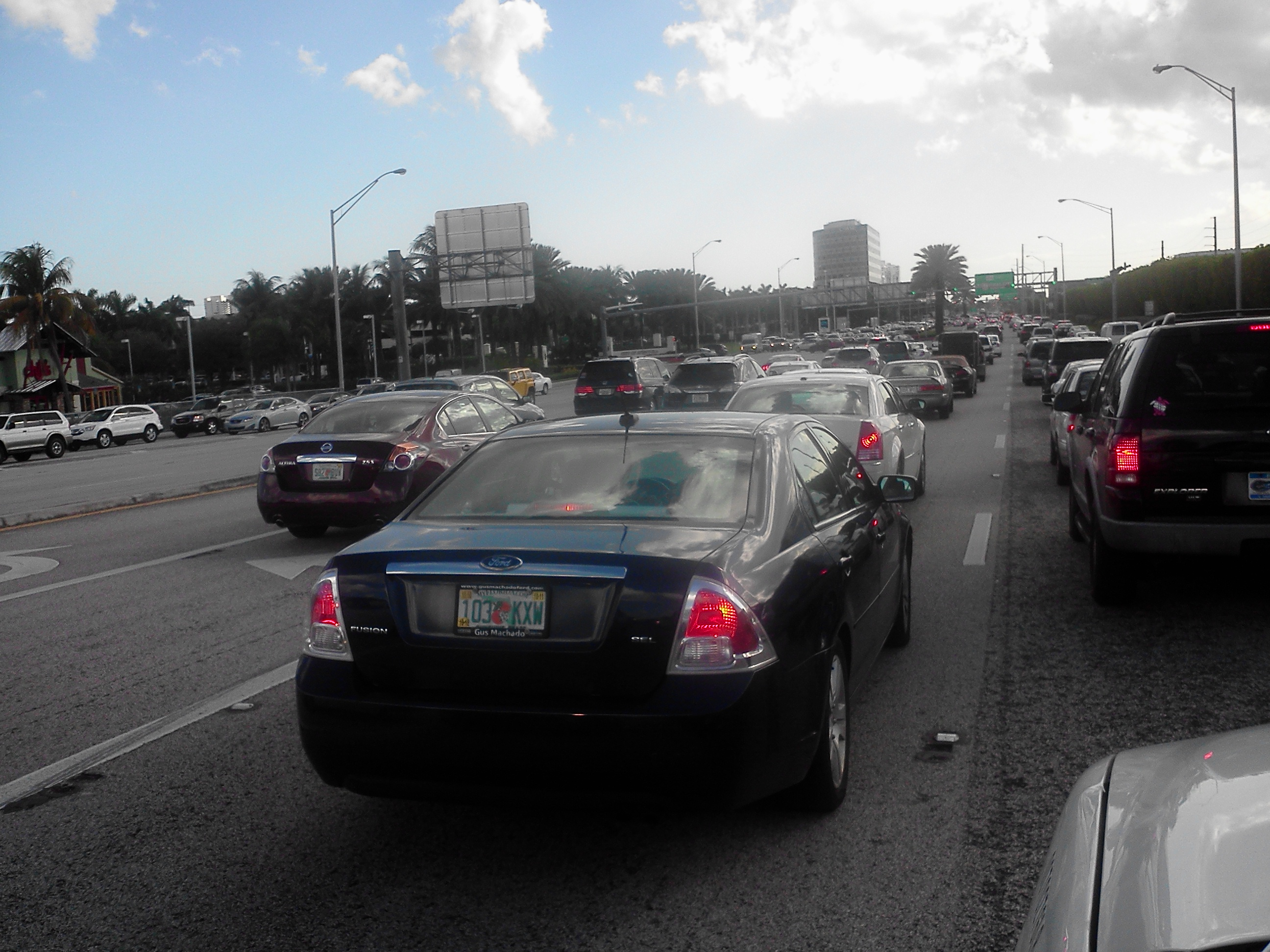 Early afternoon congestion in Aventura, Florida